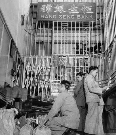 A photograph taken of the Hang Seng Bank while it was still a "Yinhao" (銀號) in British Hong Kong.